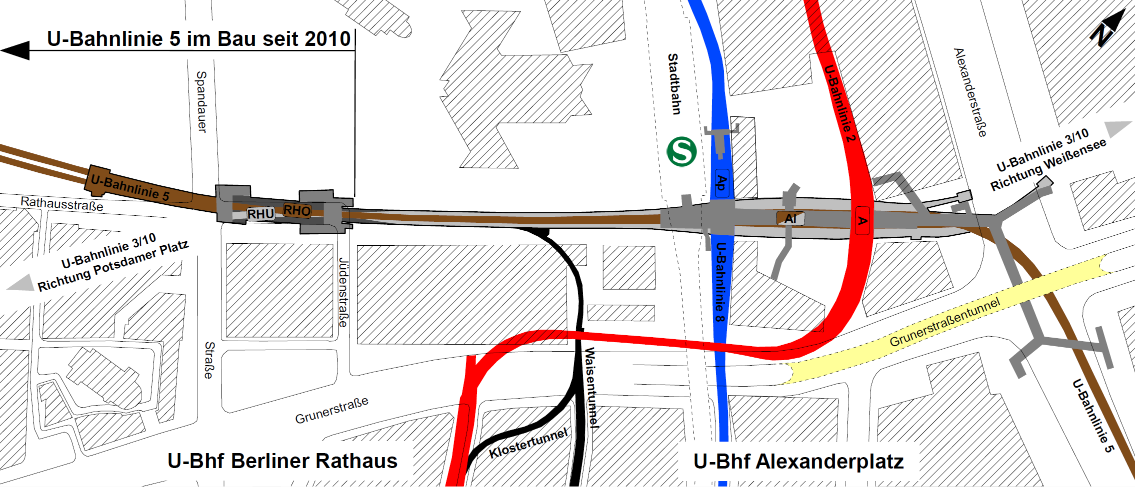 Berlin metro lines U3/U10 and U5 at Alexanderplatz